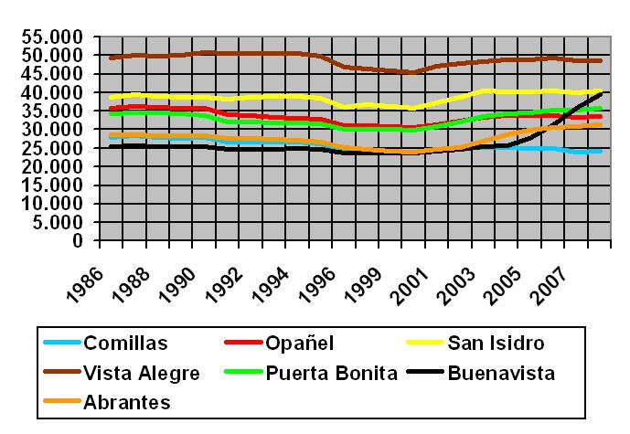 Carabanchel district's population (1986-2007).